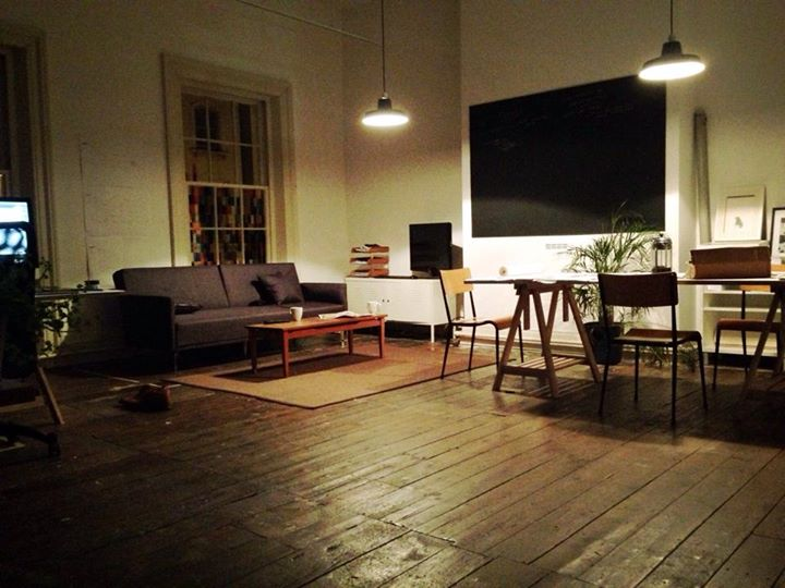 The studio in Belfast